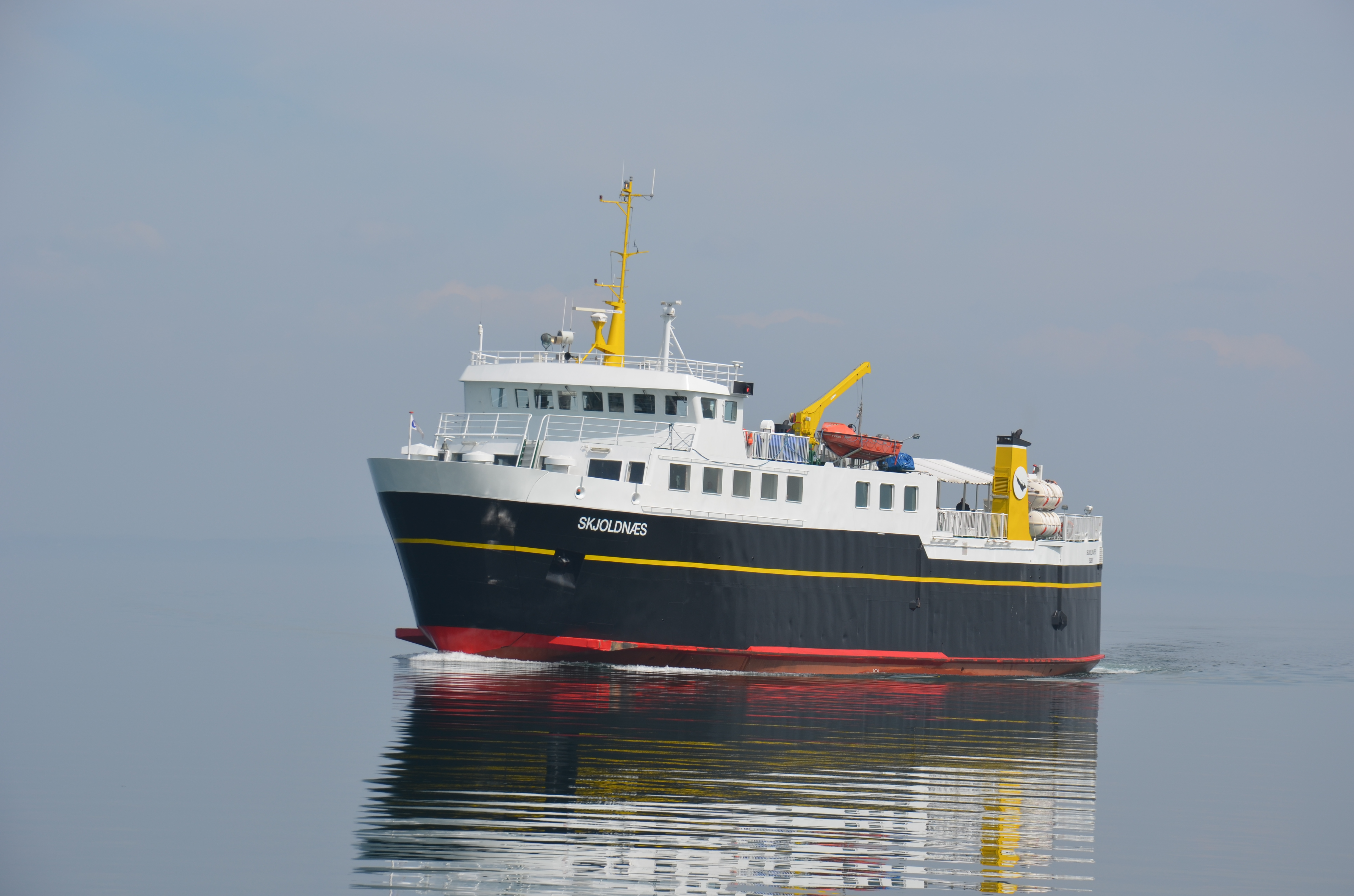 MF Skjoldnæs, Ærö Ferries, Denmark